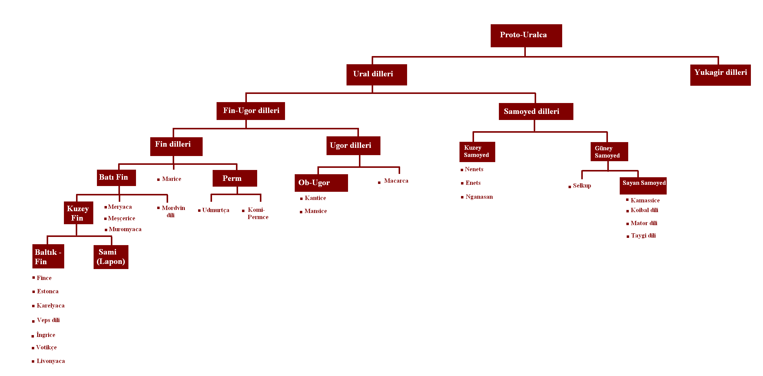 A Turkish table about Uralic languages.